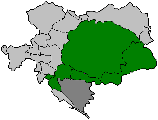 Map of Austria-Hungary